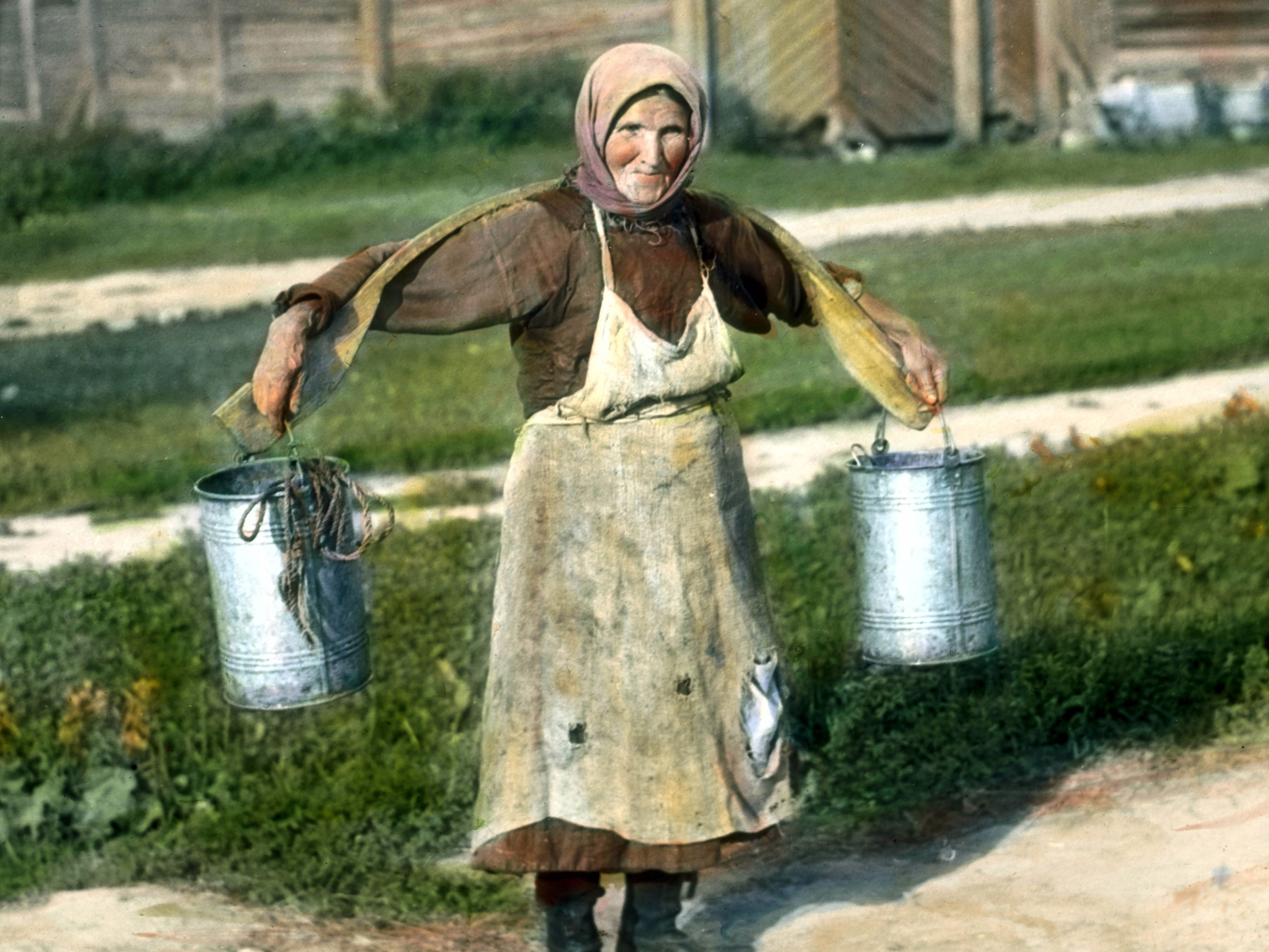 Saint Petersburg woman carrying buckets of water on a yoke